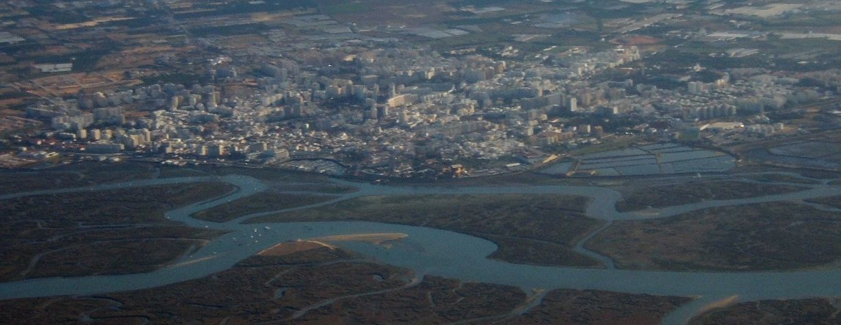 Aerial view of Faro, Portugal (in the front: parts of the Ria Formosa lagoon)